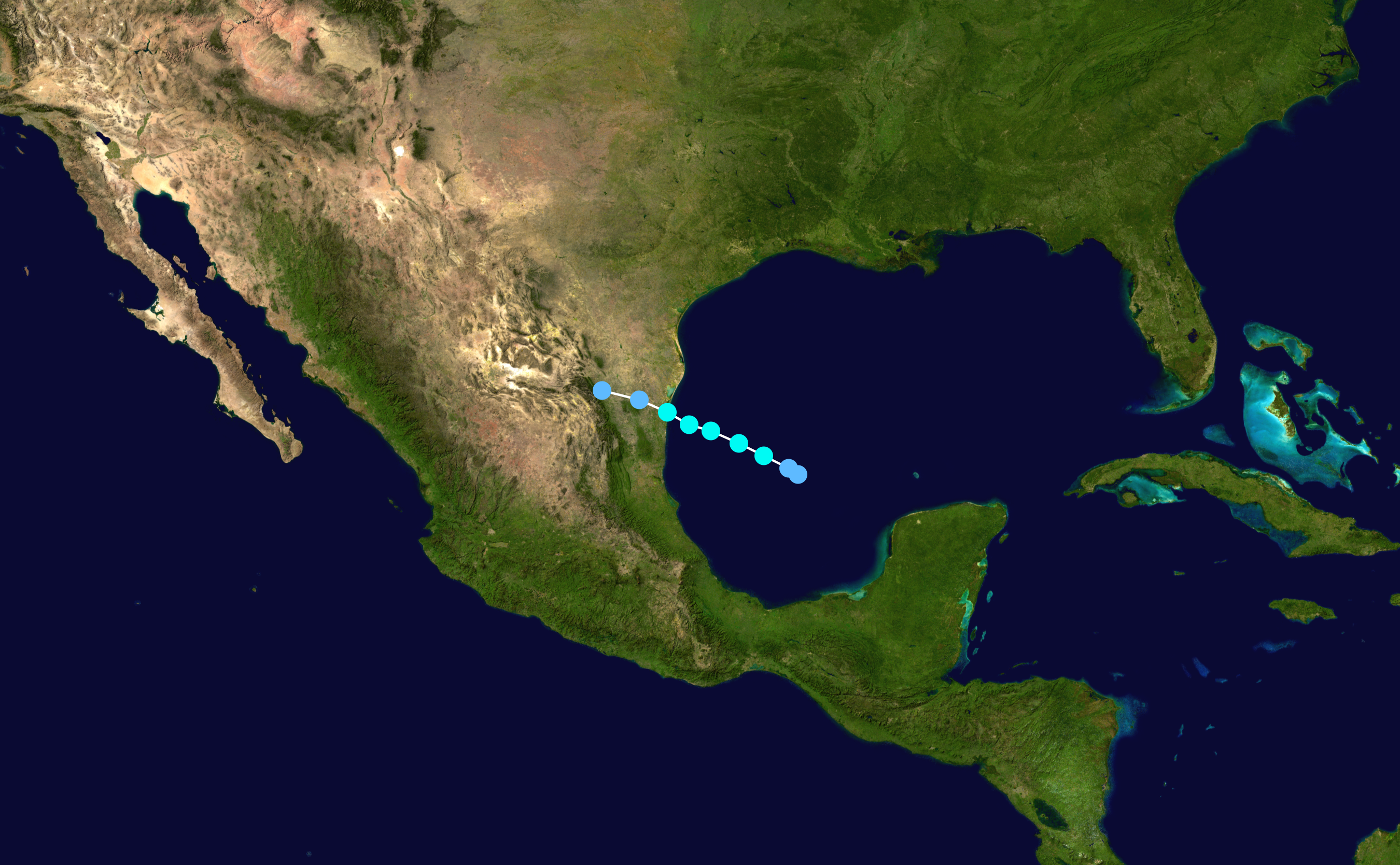 Track map of Tropical Storm Beryl of the 2000 Atlantic hurricane season. The points show the location of the storm at 6-hour intervals. The colour represents the storm's maximum sustained wind speeds as classified in the Saffir–Simpson scale (see below), and the shape of the data points represent the nature of the storm, according to the legend below. Saffir–Simpson scale Tropical depression≤38 mph≤62 km/h Category 3111–129 mph178–208 km/h Tropical storm39–73 mph63–118 km/h Category 4130–156 mph209–251 km/h Category 174–95 mph119–153 km/h Category 5≥157 mph≥252 km/h Category 296–110 mph154–177 km/h Unknown Storm type Tropical cyclone Subtropical cyclone Extratropical cyclone / Remnant low / Tropical disturbance